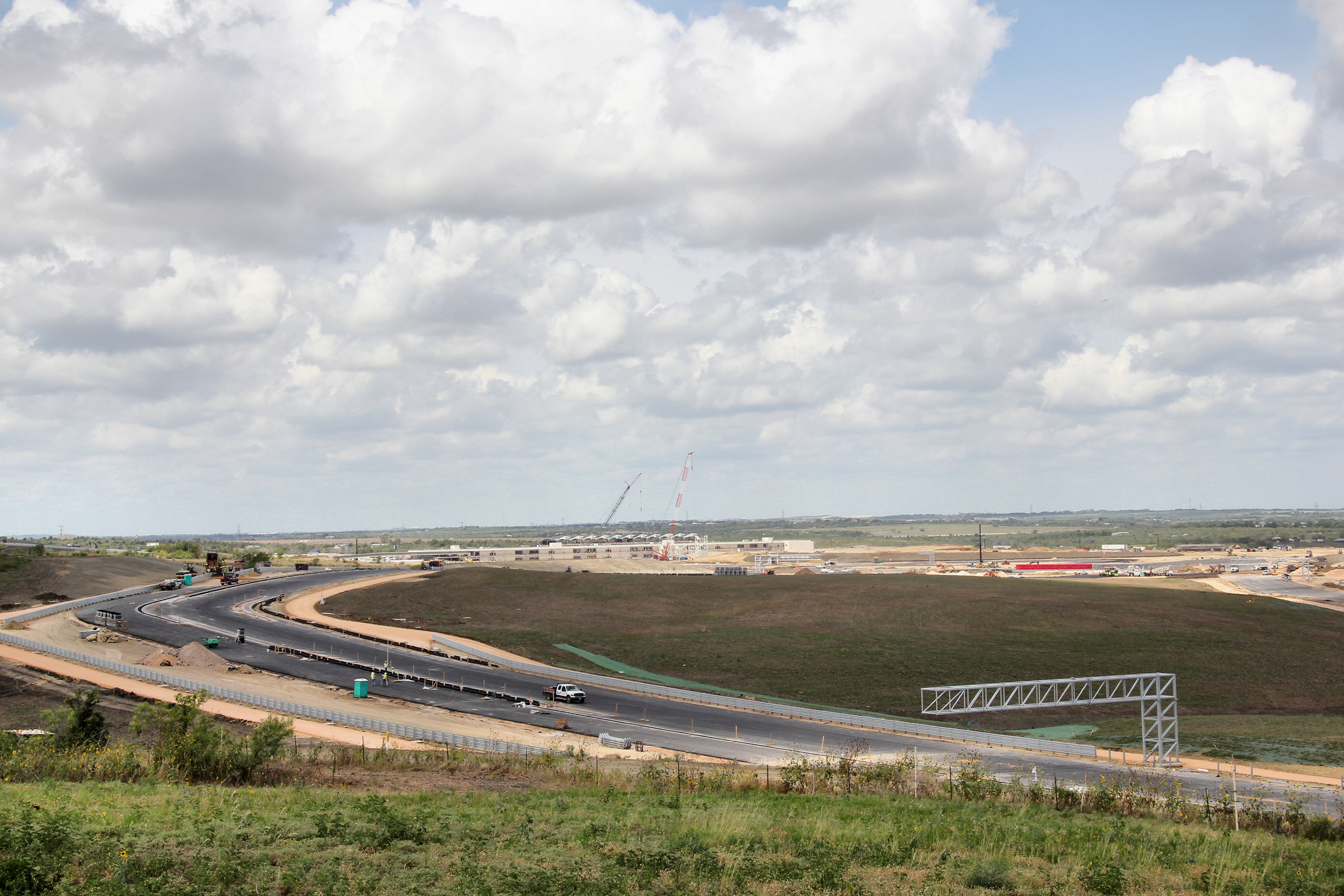 Construction of Circuit of the Americas looking into Turn 10 with the paddock building and main grandstand in the back.